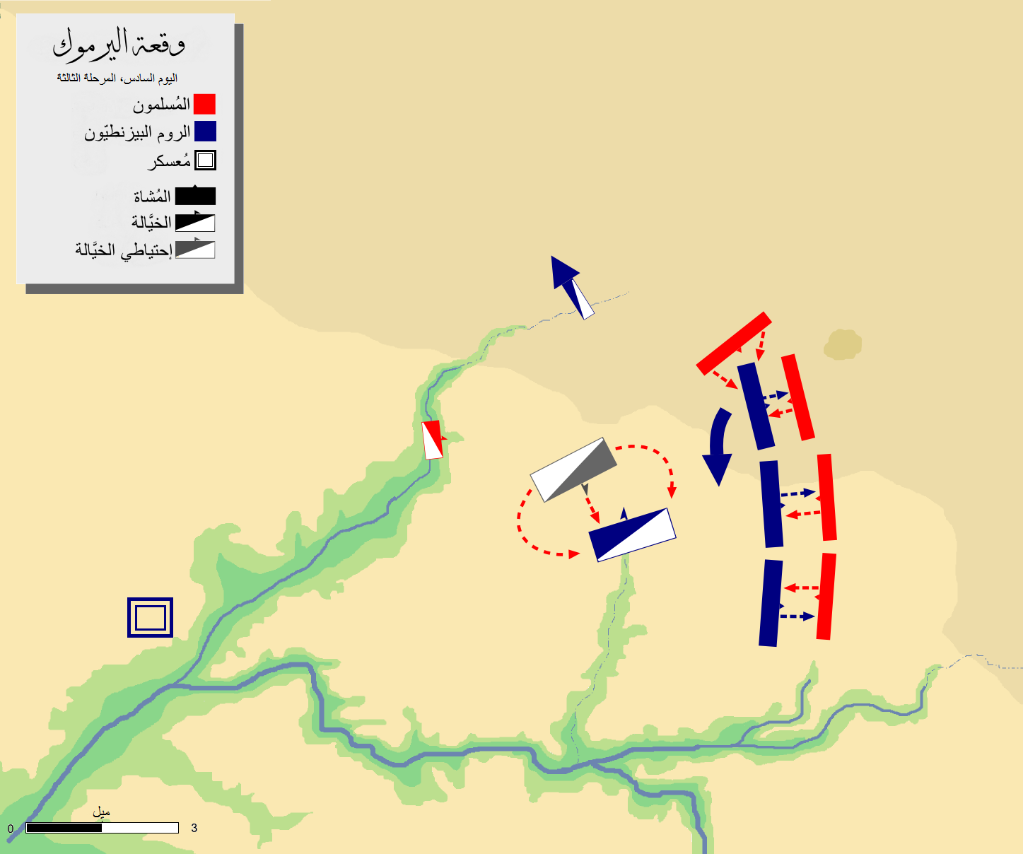 Battle_of_Yarmouk-day-6_phase-3